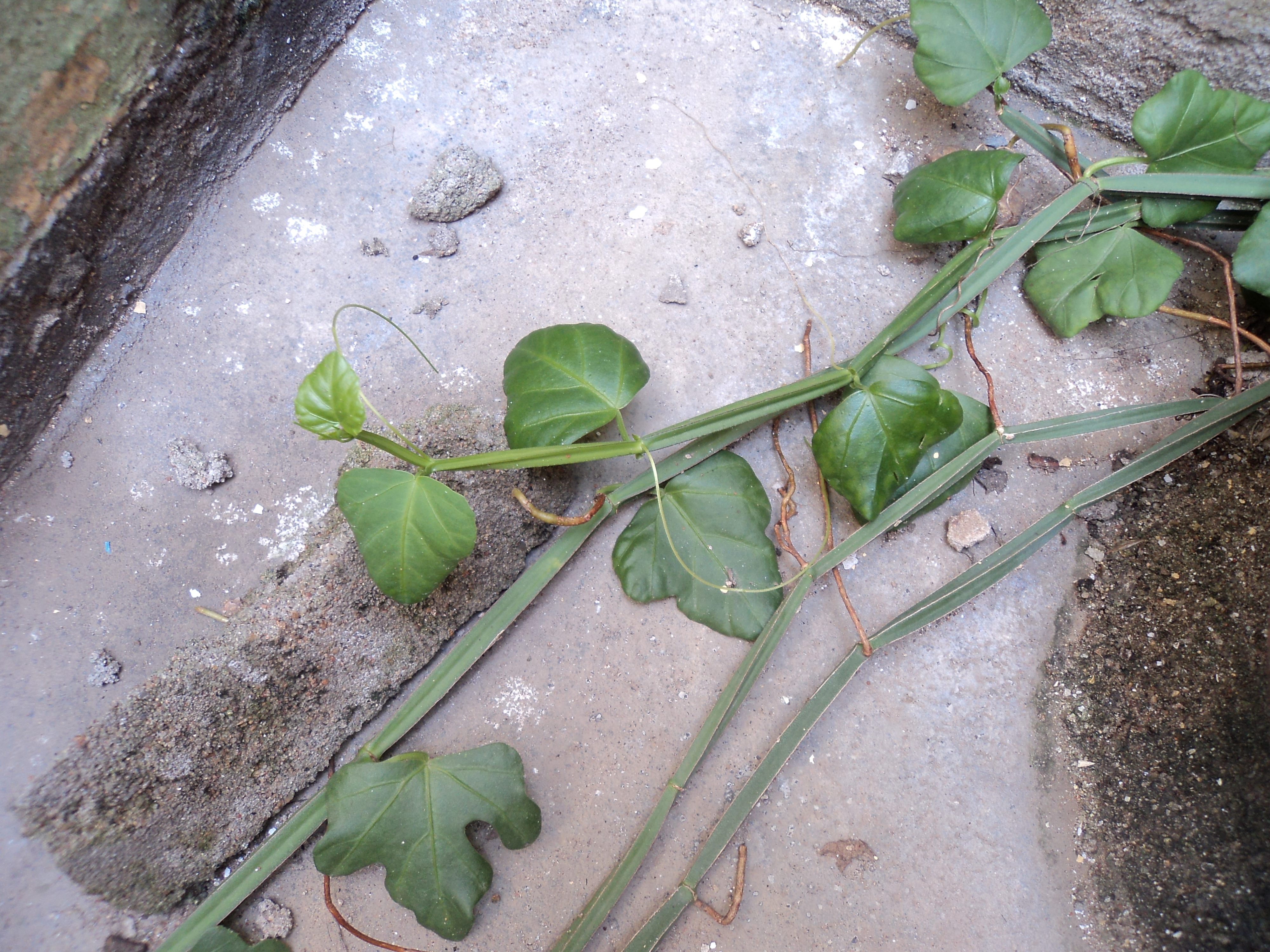 Foto walk,the wikipedia workshop event-december-2011, Salem, Tamil Nadu